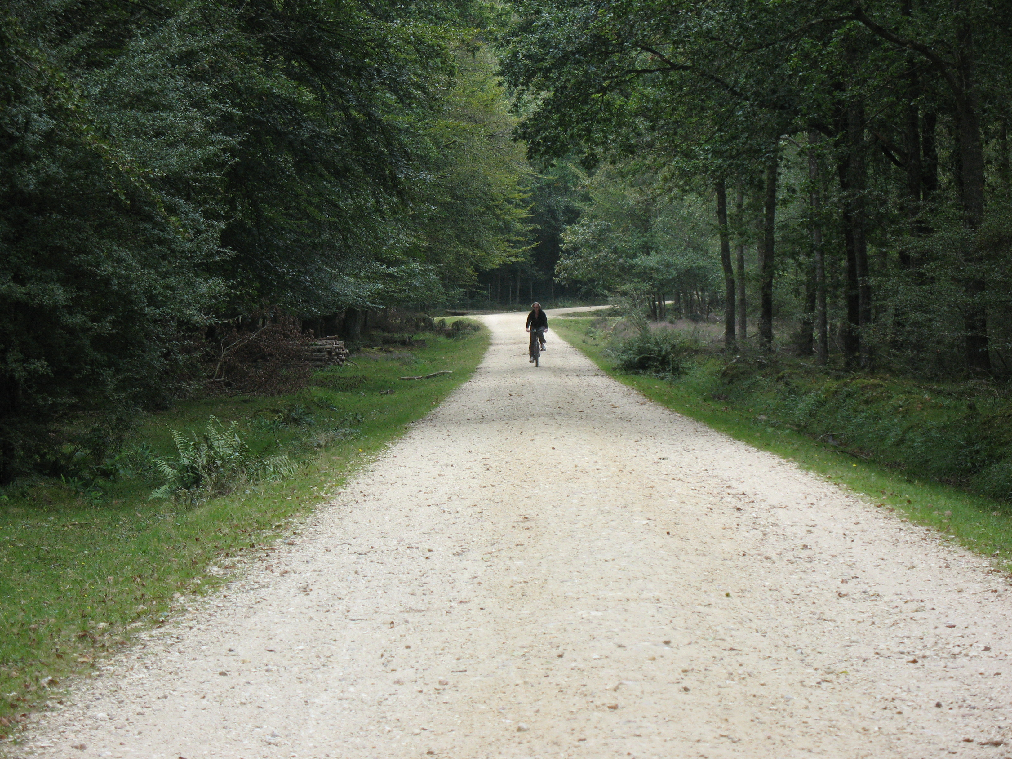 Cycle path in the New Forest.